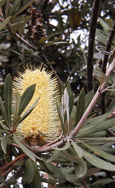 Banksia integrifolia integrifolia - in flower in bushland, Nannygoat Hill (Sydney suburbs). Photo: Cas Liber